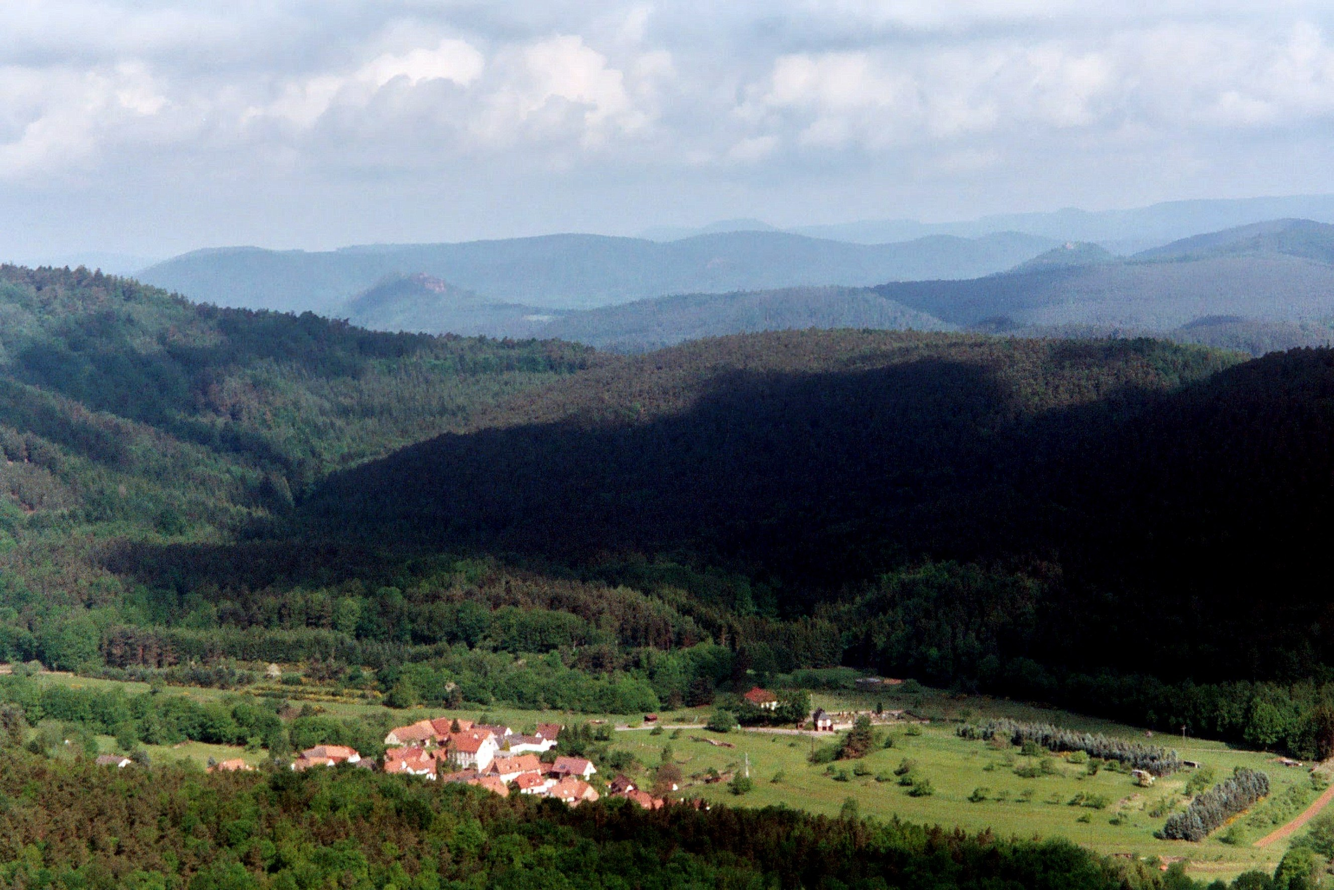 Böllenborn. view from the Stäffelsberg to the village